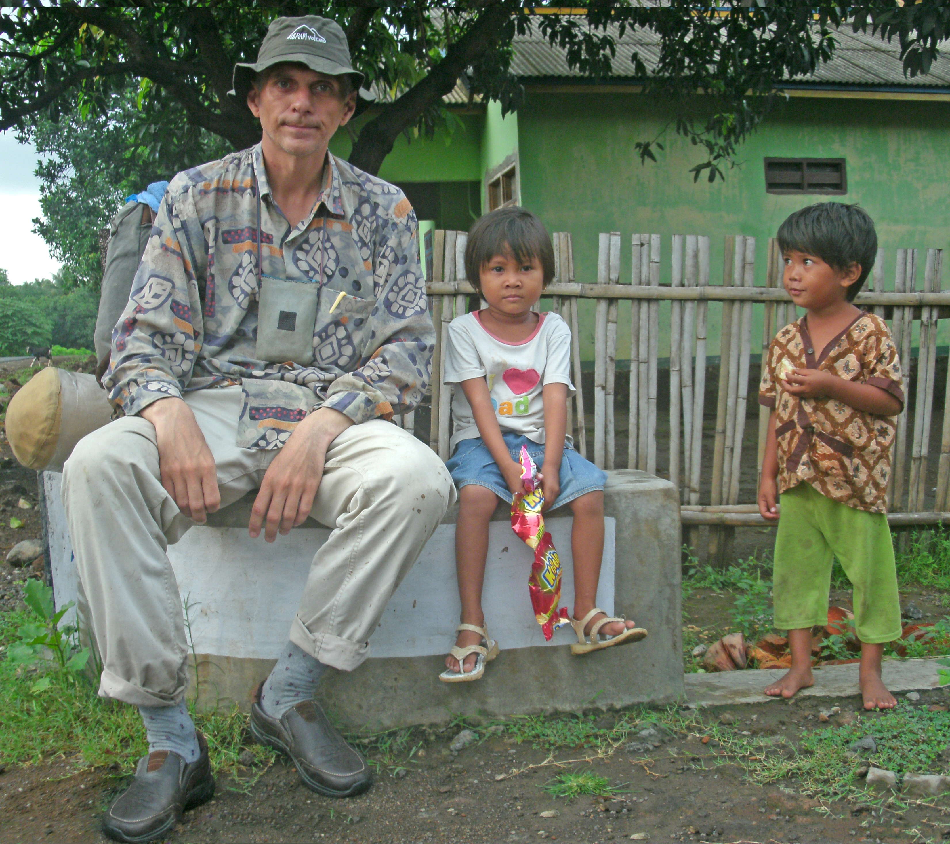 Sumbawa Island, Indonesia, photo from the book "Six months on the islands ... and countries" ISBN 978-5-9908234-0-2 (uploaded by the author of the book)